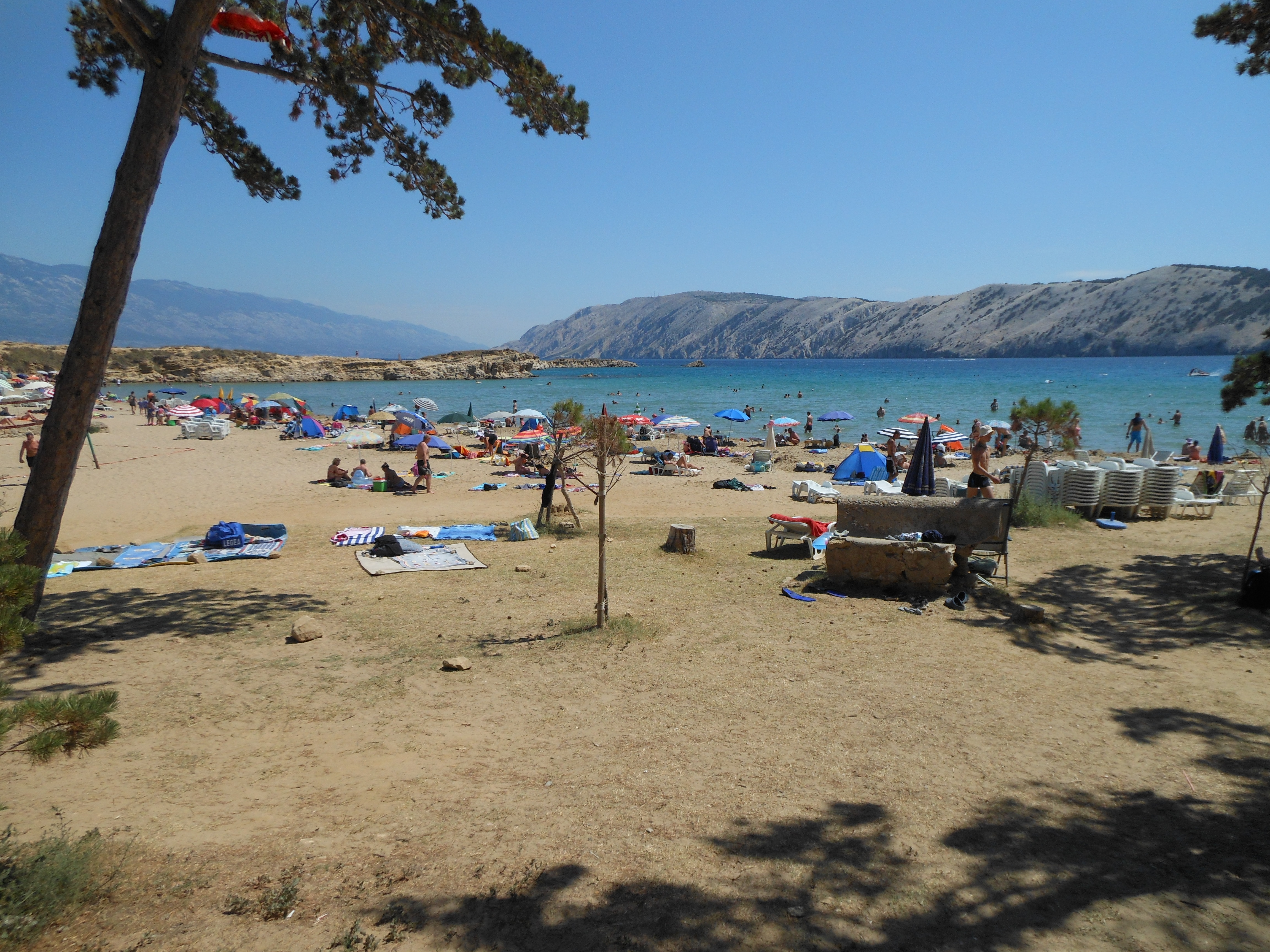 Beach next to Paradise Beach in Lopar